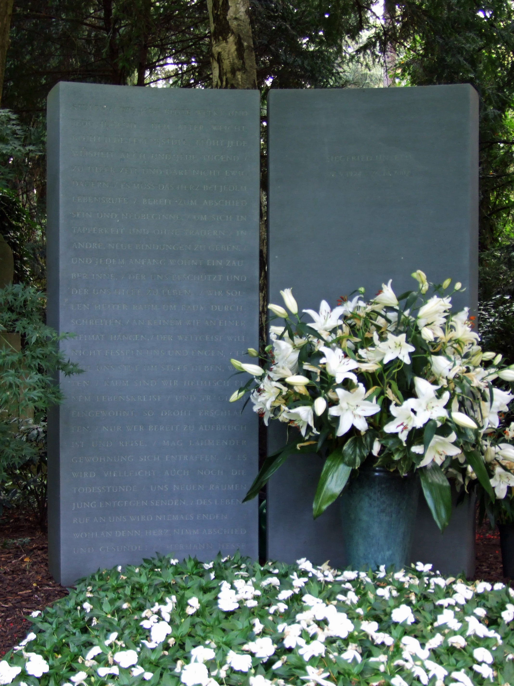 Grave of Siefried Unseld, Hauptfriedhof, Frankfurt am Main, Germany